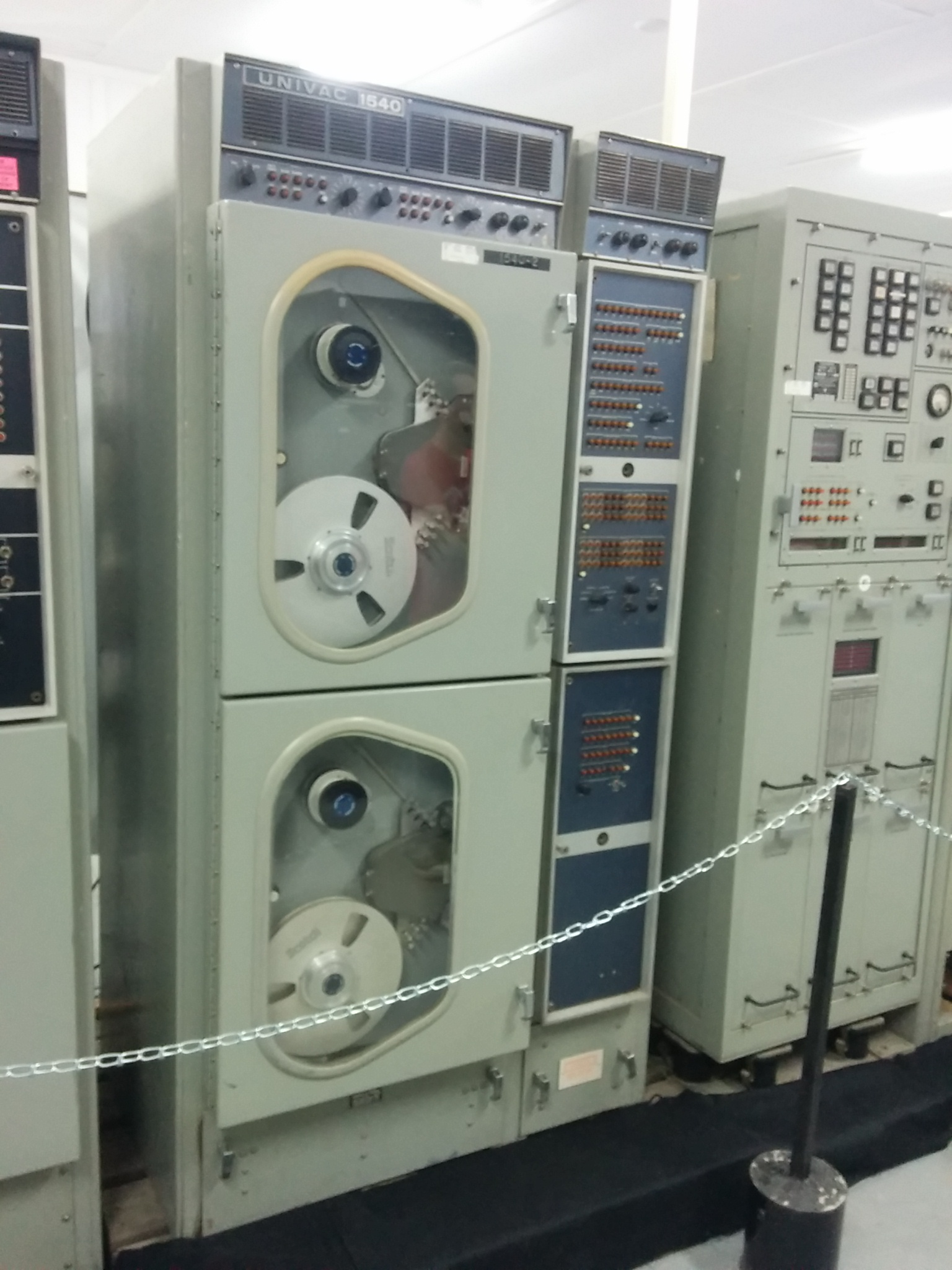 UNIVAC 1540, Computer Museum, NJ